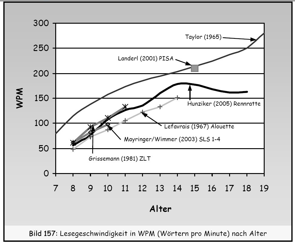 Comparison of research results on reading speed English, French and Swiss-German students ages 8 to 18